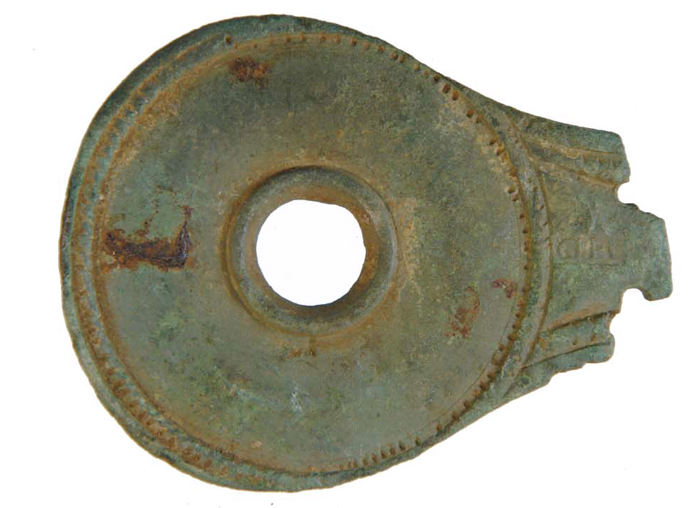 A terminal fragment from a cast copper alloy Roman patera handle. The flat circular terminal has a central circular perforation for suspending the vessel with a raised rim around the edge. Around the edge of the circular terminal is an incomplete double rim border with transverse grooves on the inner rim. On the inside of the border is another concentric row of punched dots, which is clearer near the handle end of the terminal but fades away midway around. The sides of the handle taper towards the break and have a double grooved linear border on either side with punched dots in between. A maker’s mark in the centre is possibly truncated by the break but reads ‘CI PI’. The broken end also has at least two incomplete rivet holes, which suggests that the vessel may have been repaired. The surviving length of the handle is 60.7mm, the external diameter of the terminal is 47.1mm, the thickness is 3.4mm and the weight is 39.04g. The maker’s mark is ‘CIPI’ refers possibly to Publius Cipius Polybius or an other member of a Capuan family of bronze smiths, who was operating in the mid 1st century AD. An example from Colchester was found in the Boudiccan destruction layer of 60 AD (Hawkes, C.F.C. and Hull, M.R. Camulodunum (1947), 334, pl. CI).